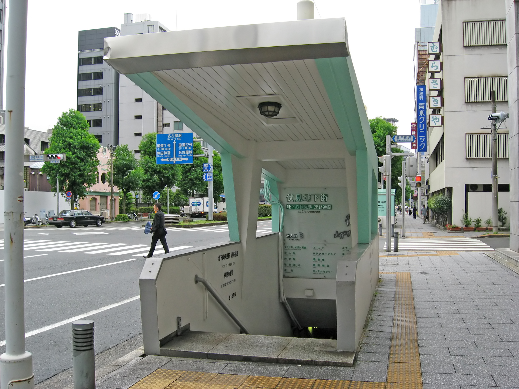 Fushimi Underground Shopping Street B Entrance/Exit in Nagoya, Aichi, Japan